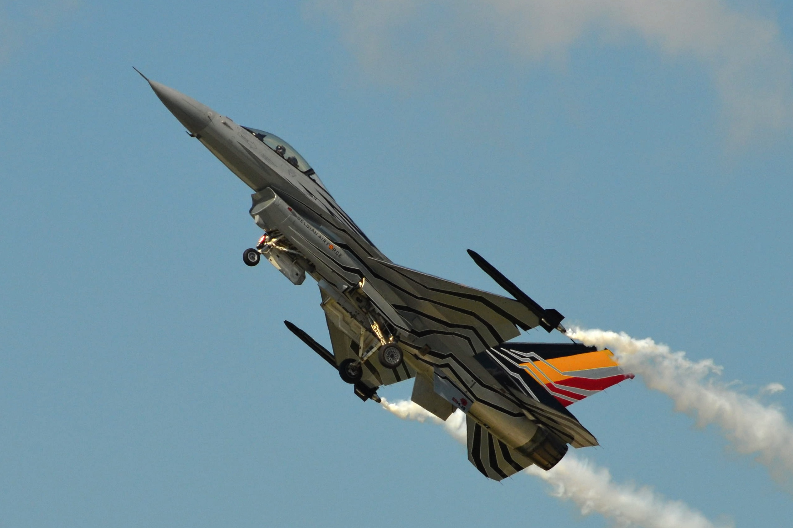 Belgian Air Force F-16 during performanceon SIAF 2015